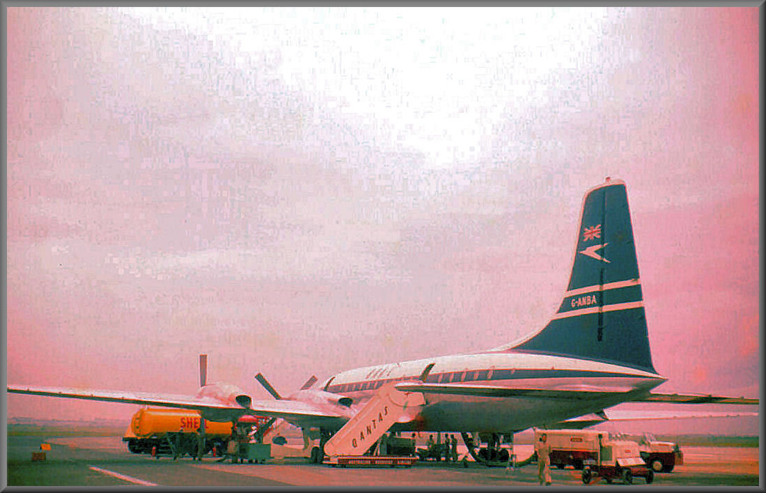 Melbourne, BOAC Bristol Britannia 102 G-ANBA, Qantas service, 1959